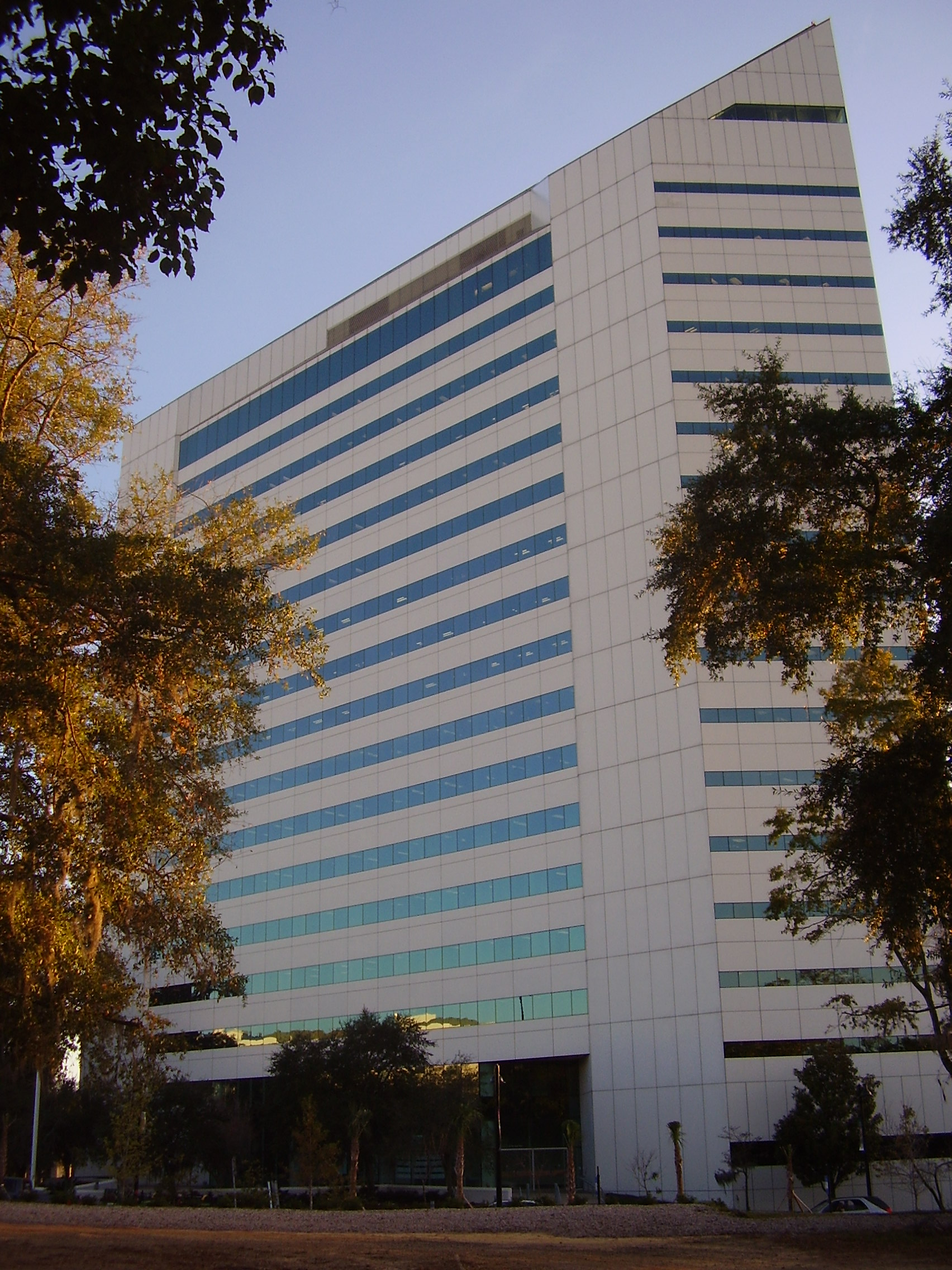 Ralph D. Turlington Florida Education Center, or the Turlington Building - Headquarters of the Florida Department of Education